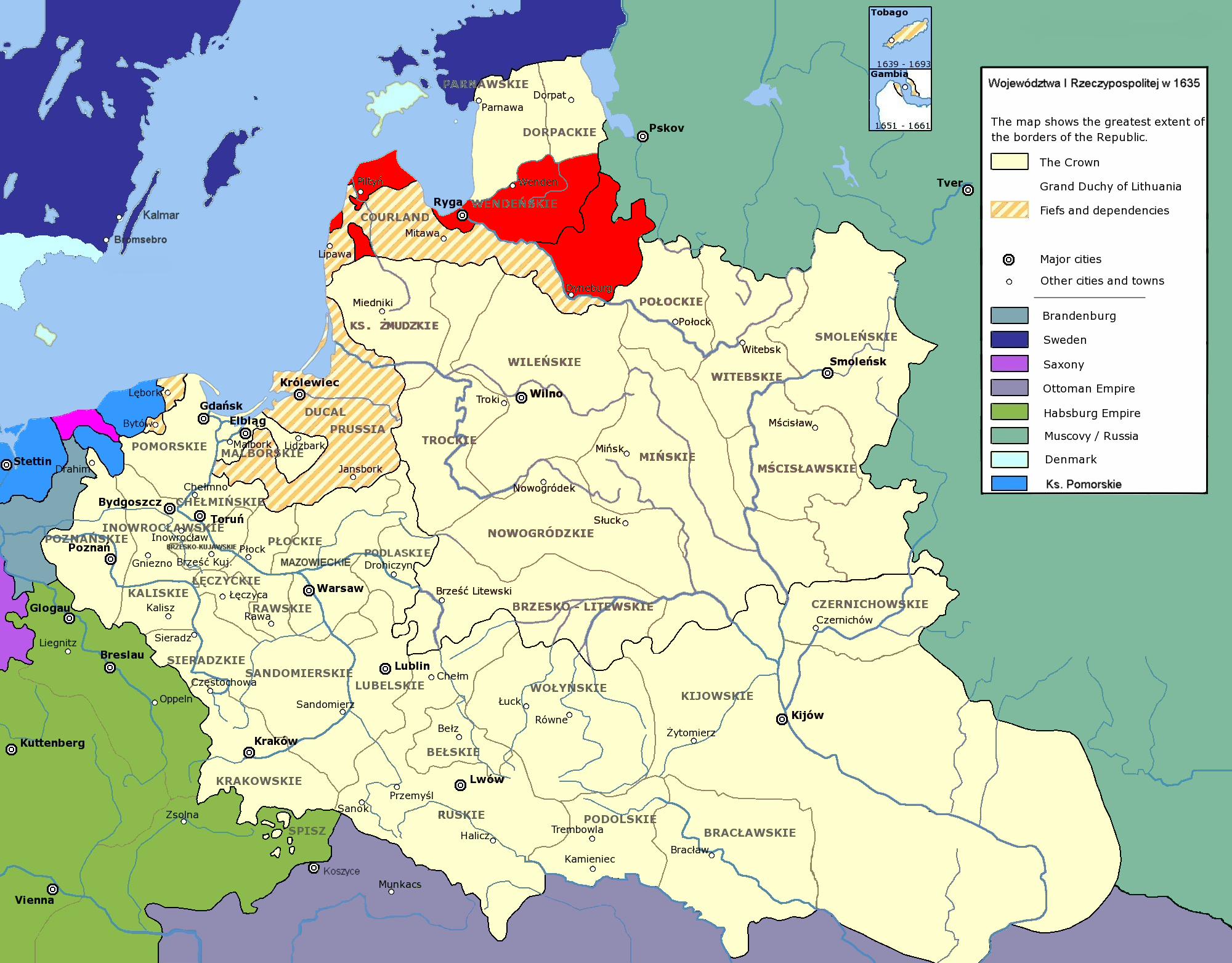 Polish-Lithuanian Commonwealth in 1635; Wenden Voivodeship